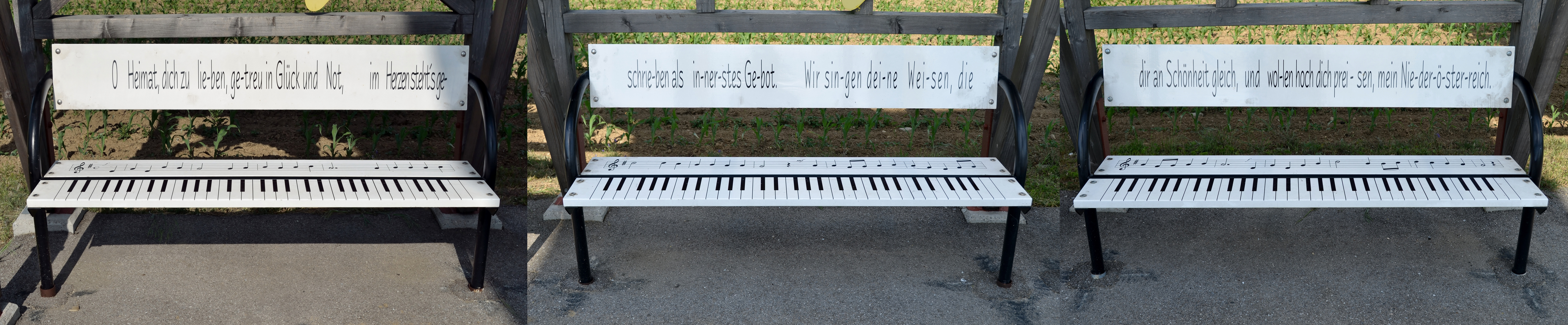 The beginning of Lower Austria's anthem (text and keys), written to three benches at the Max Schubert Warte in Kapelln, Lower Austria.